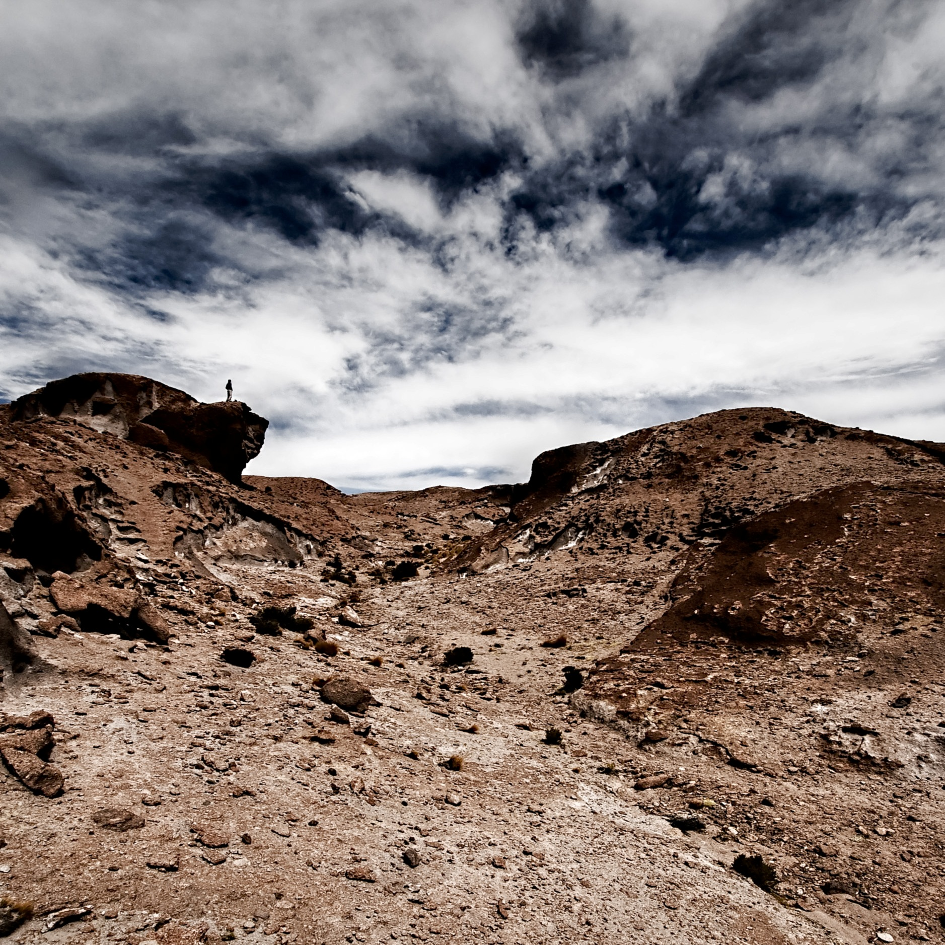 A view of the Sur Lipez desert, just south of the Uyuni Salar, in Bolivia. This is a volcanic area and is very geologically active, hence the 'geometrically challenged' landscape.